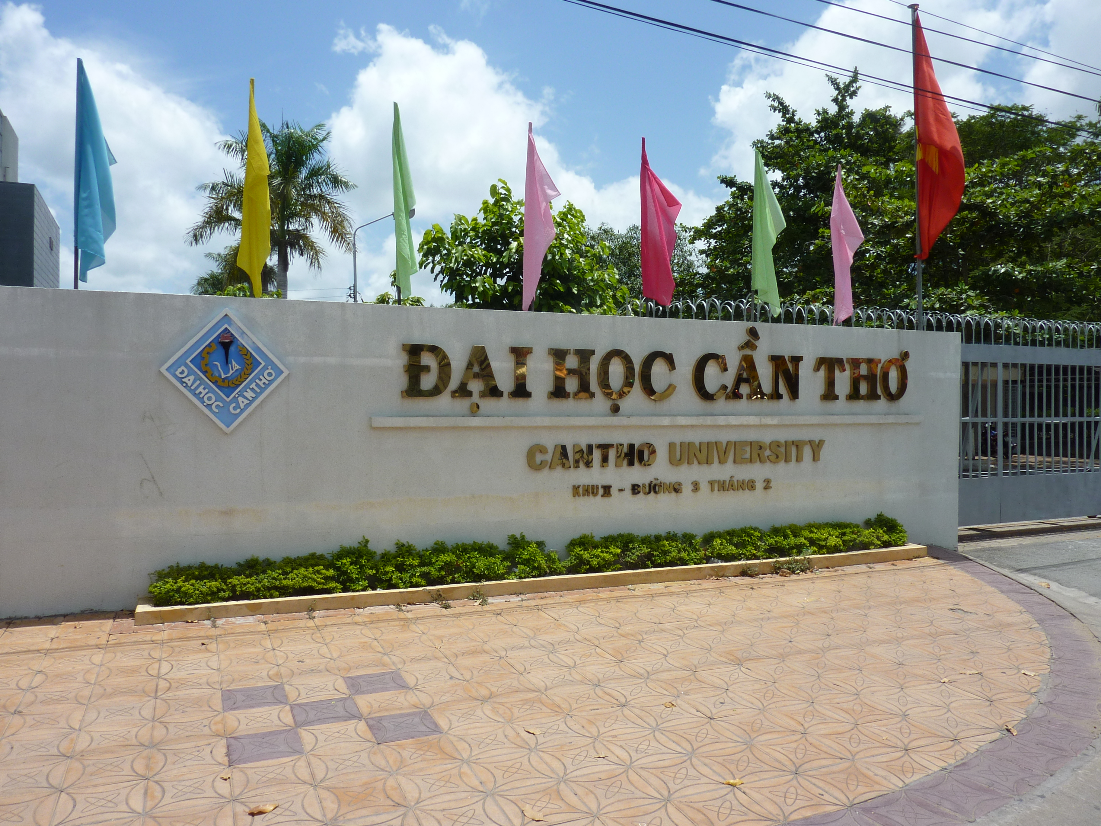 The entrance of Can Tho University in Can Tho, Vietnam, 2012